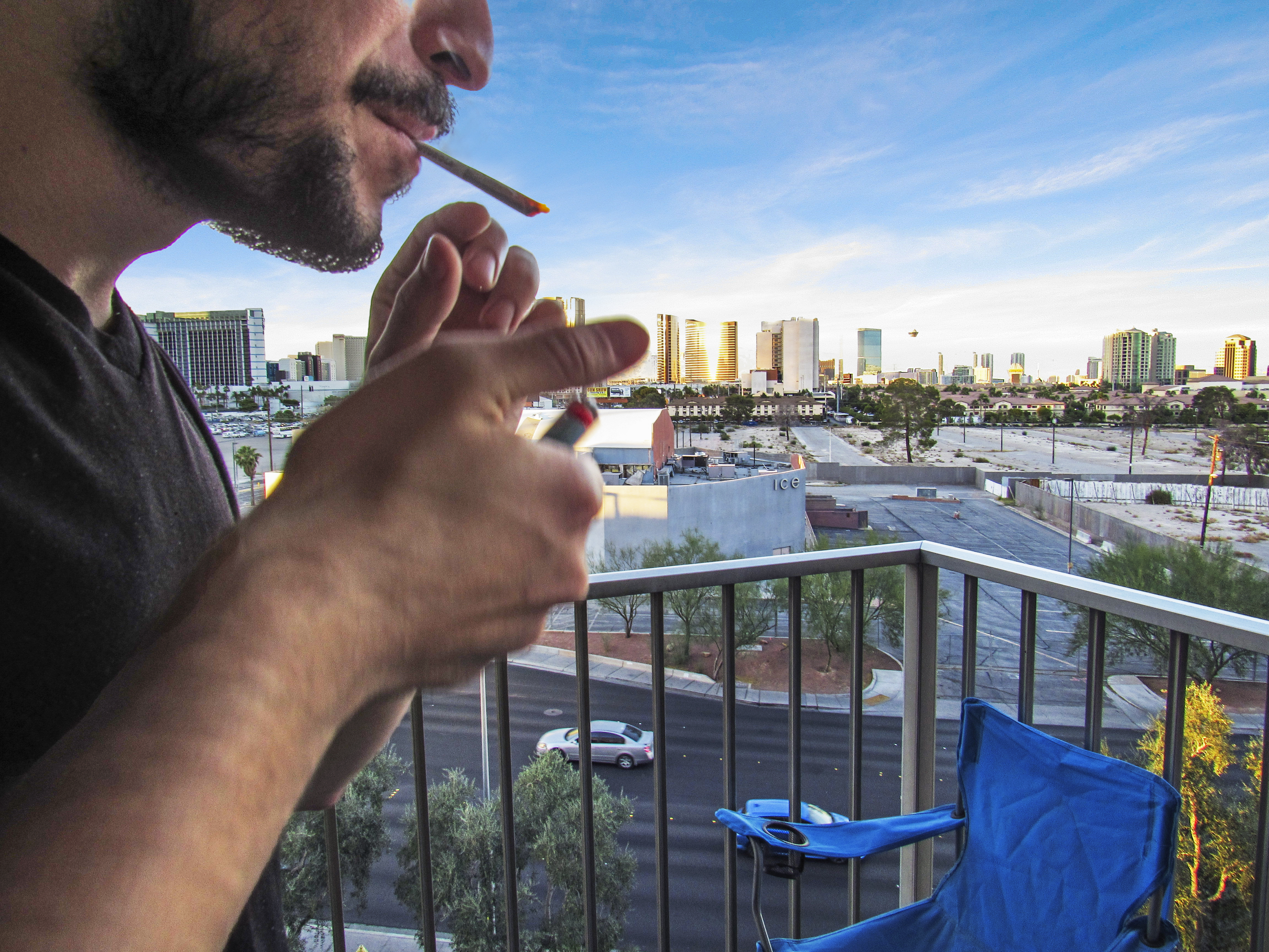 Image free to use when crediting with a do-follow hyperlink.